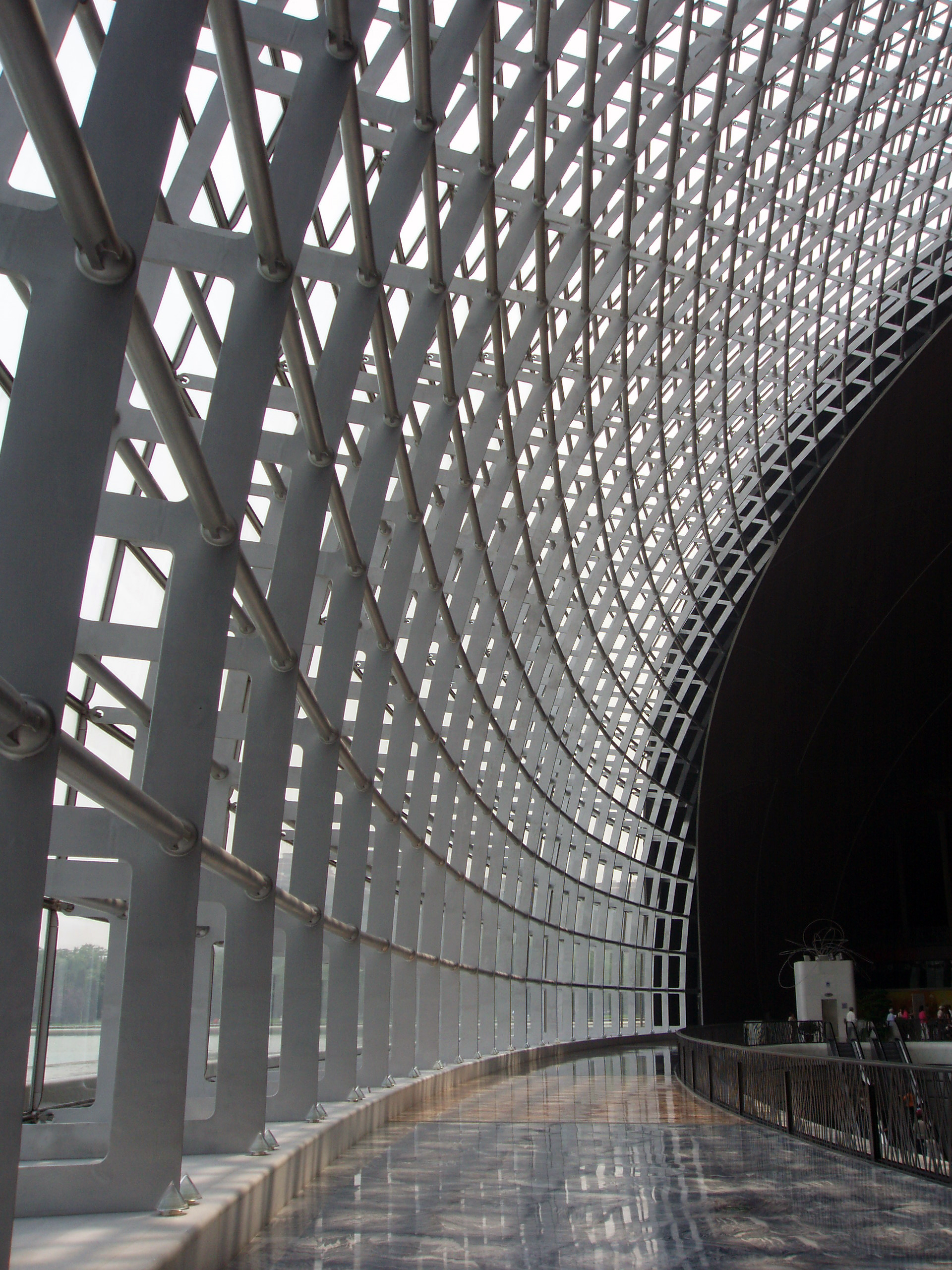 Inside the National Centre for the Performing Arts,Beijing